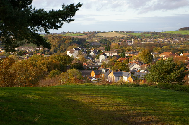 Rednal Hill, looking towards Rubery